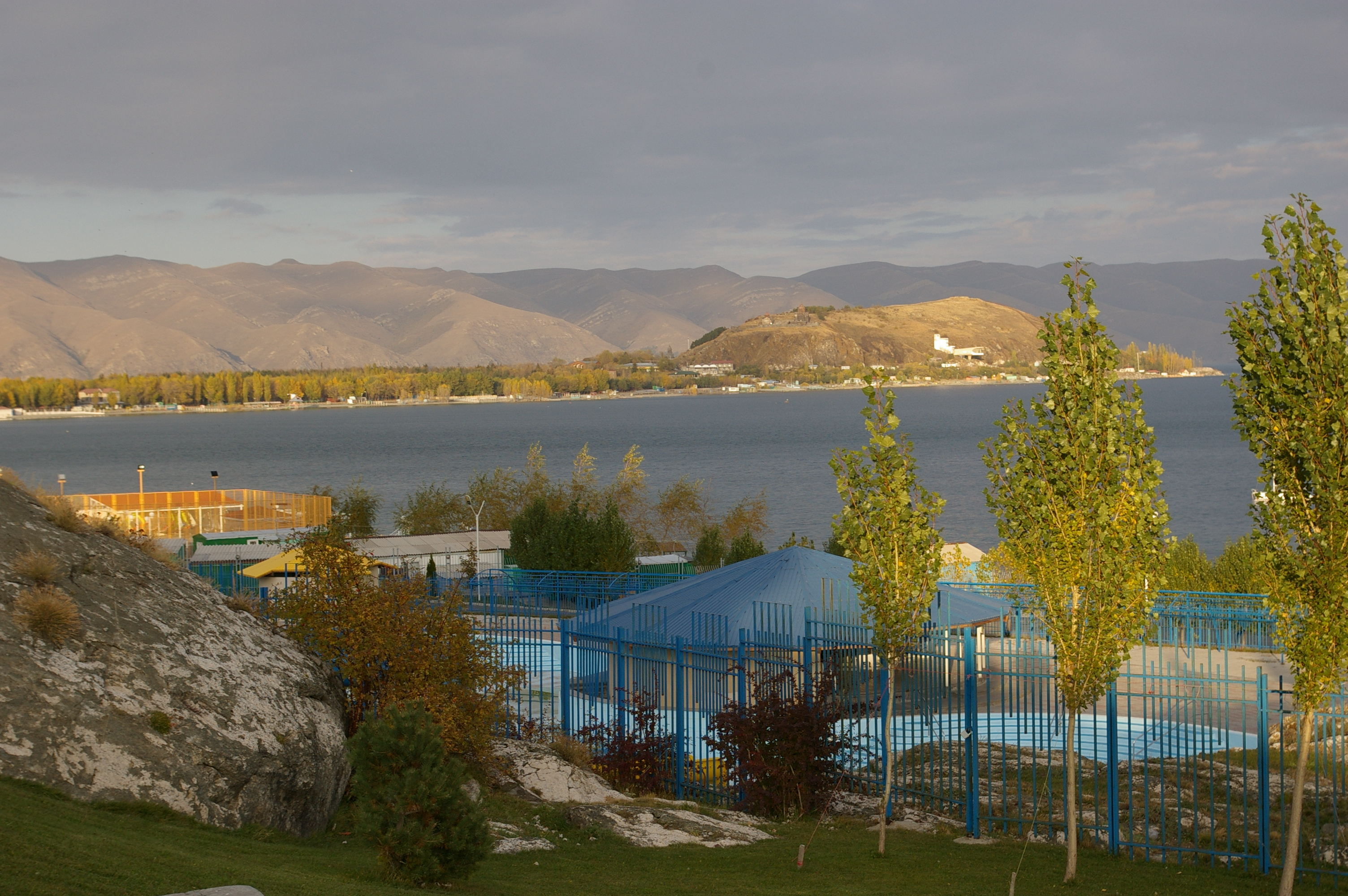 Sevan beach and Sevan peninsula in the background.